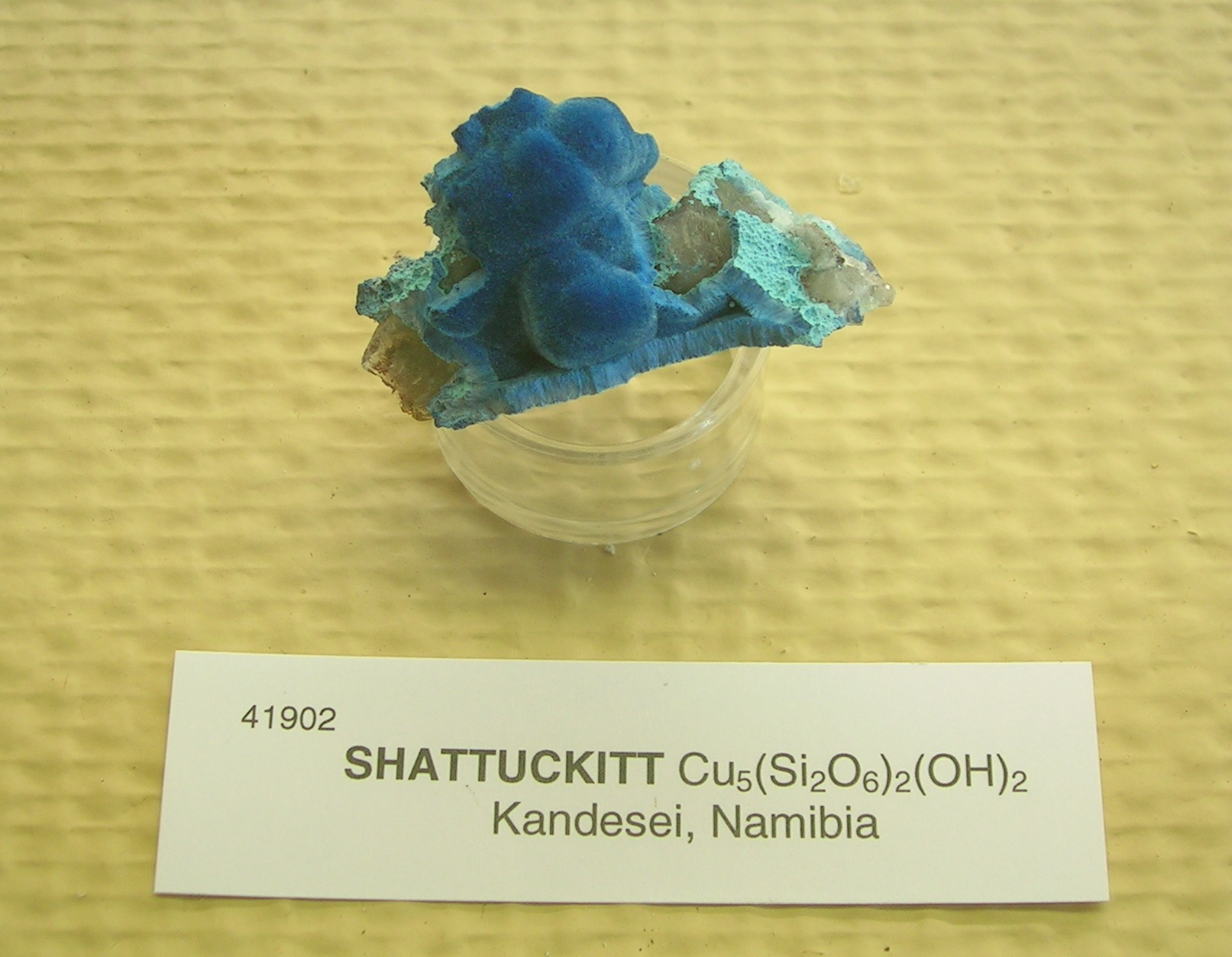 Shattuckite from Namibia. Oslo geological museum.